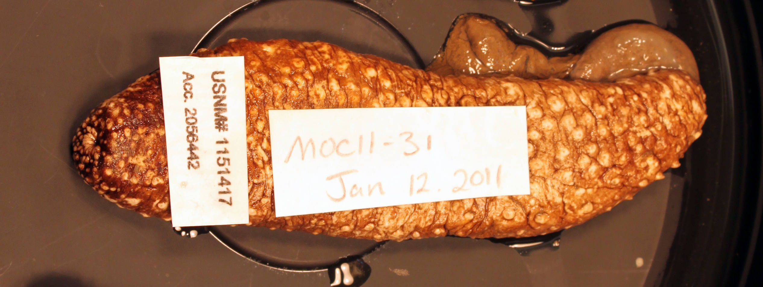 PRESERVED_SPECIMEN; Preparations: Alcohol (Ethanol); Tissue for DNA Analysis; Holothuria occidentalis Ludwig, 1875; Individual count: 1; Type status: (no data); Identified by: Pawson, David L., Smithsonian Institution, National Museum of Natural History; Event date: 20110112T00:00:00Z; Additional description: IZ 1151417 specimen, recently defrosted specimen photographed prior to preservation